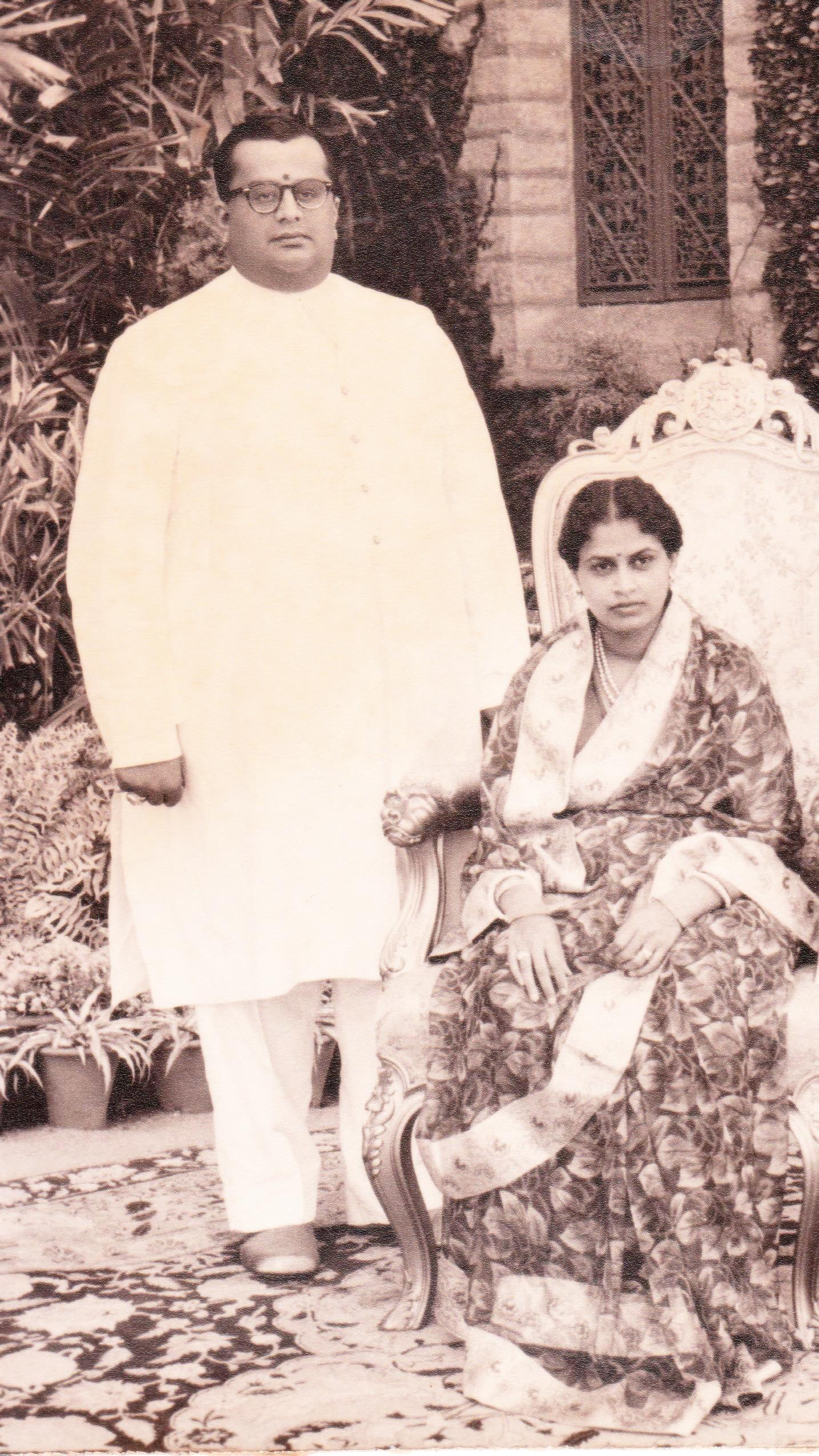 This is from the family collection of the Author. The photo depicts father in law and mother in law of the Author Rajachandra (talk) 17:50, 6 June 2010 (UTC)